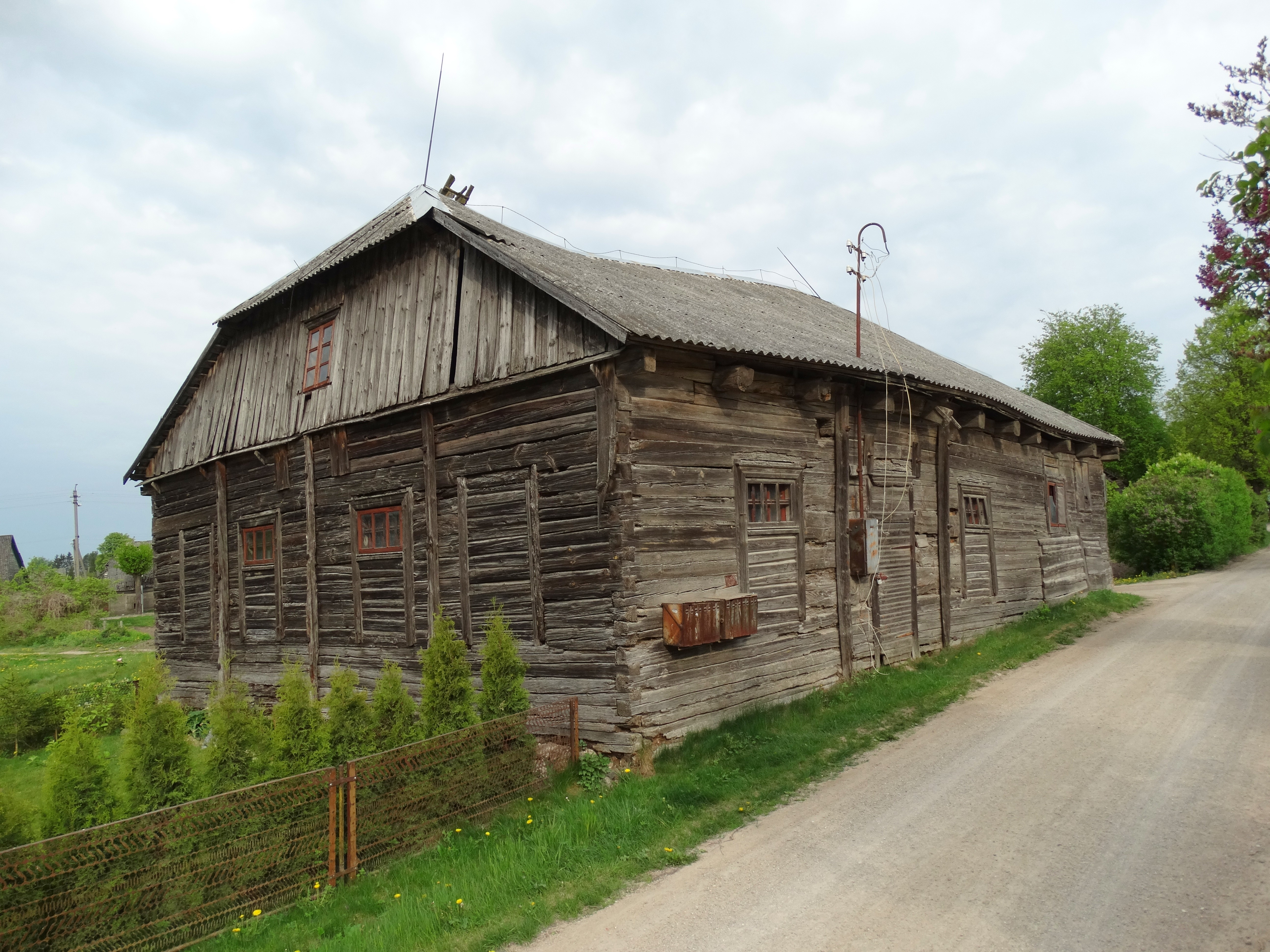 Former synagogue, Rozalimas, Lithuania